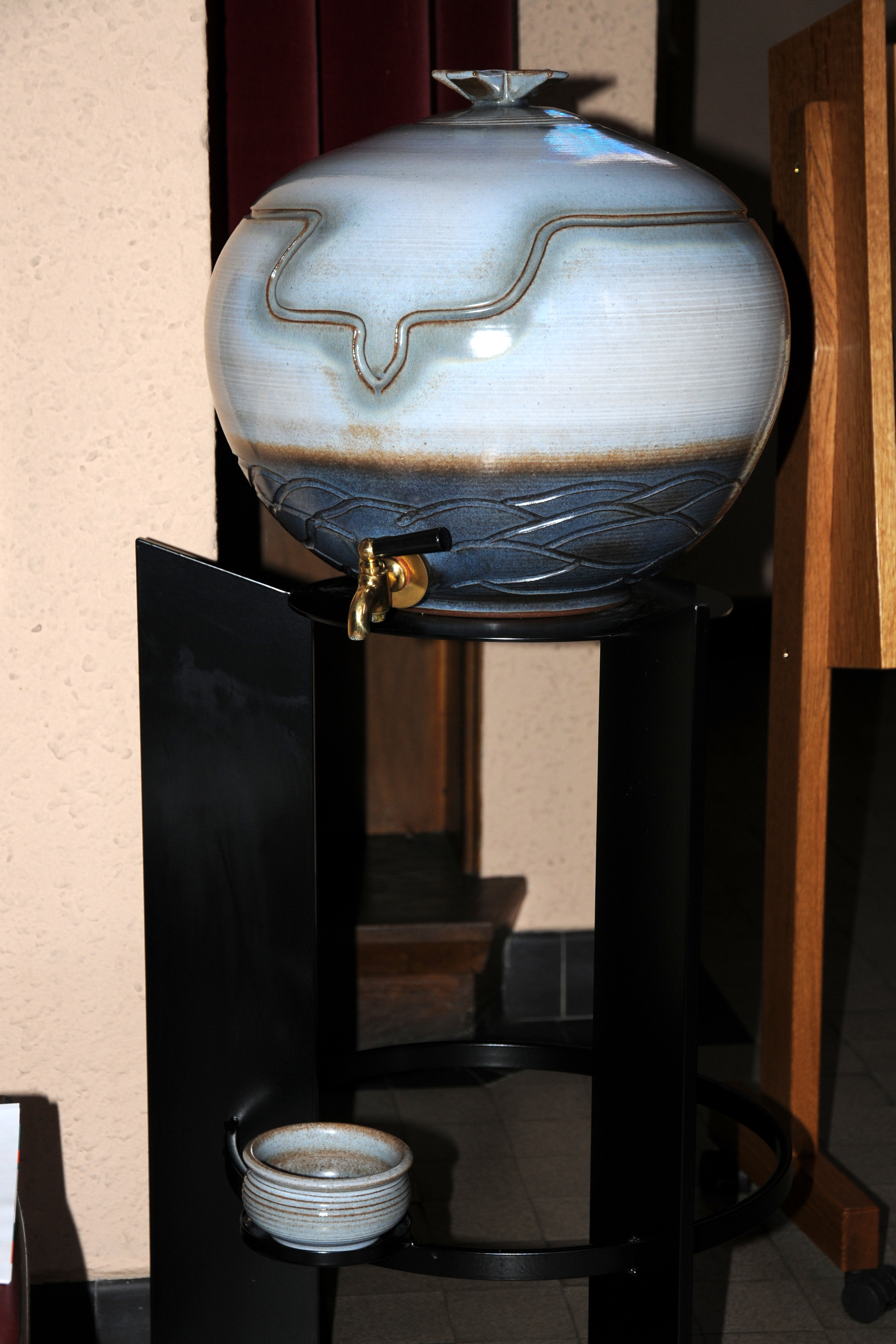 Église Saint-Bernard, Kautenbach: Holy Water dispenser .